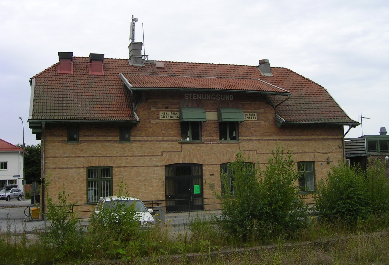 Train station of Stenungsund, Västra Götaland County, Sweden